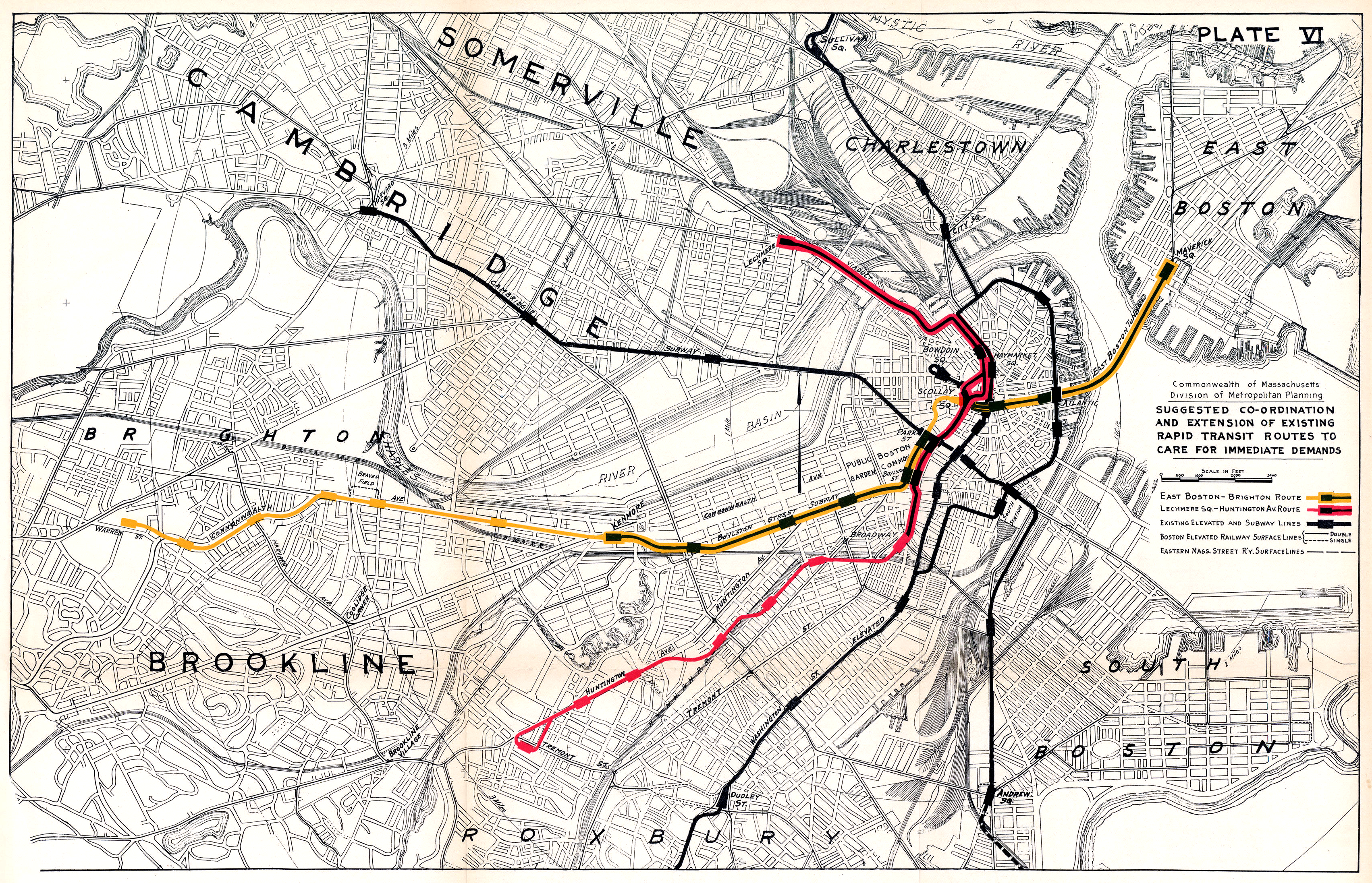 Plate VI of the 1926 Report on Improved Transportation Facilities in Boston, showing the proposed conversion of the existing Tremont Street Subway into two rapid transit lines.